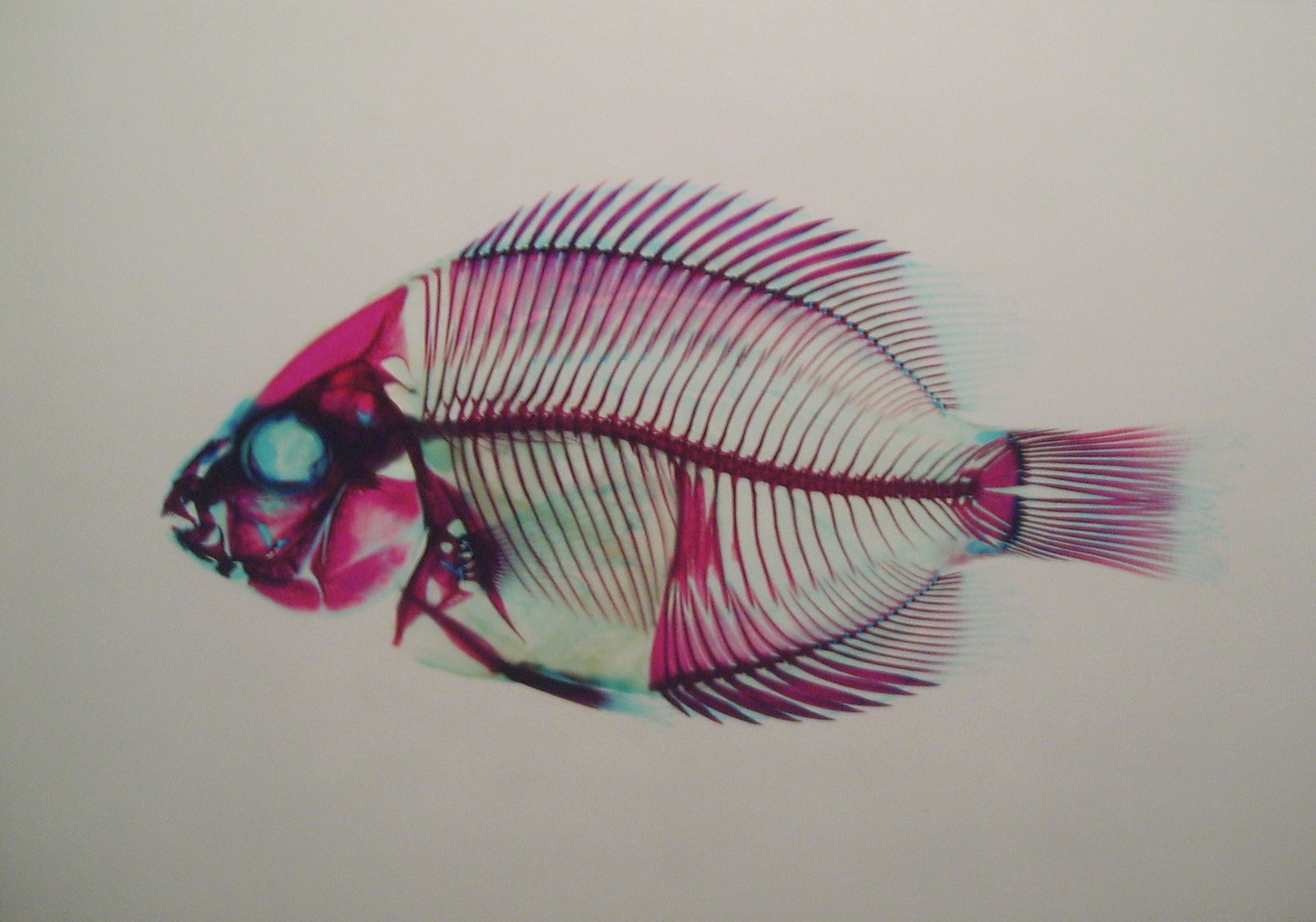 A madagascar chichlid (paretroplus polyactis) treated with chemical dyes by American Museum of Natural History ichthyologist John S. Sparks. The different dyes reveal different parts of the whole fish: red shows bones, blue cartilage and enzymes made tissue transparent. (Source: Description at AMNH exhibit Picturing Science: Museum Scientists and Imaging Technology)